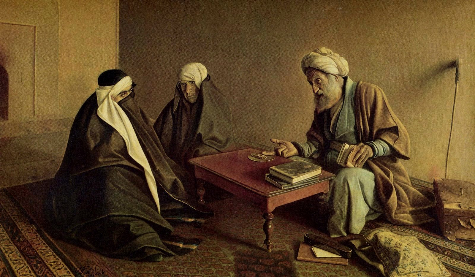 Rammal (copy). Painting by Kamal-ol-molk in 1892